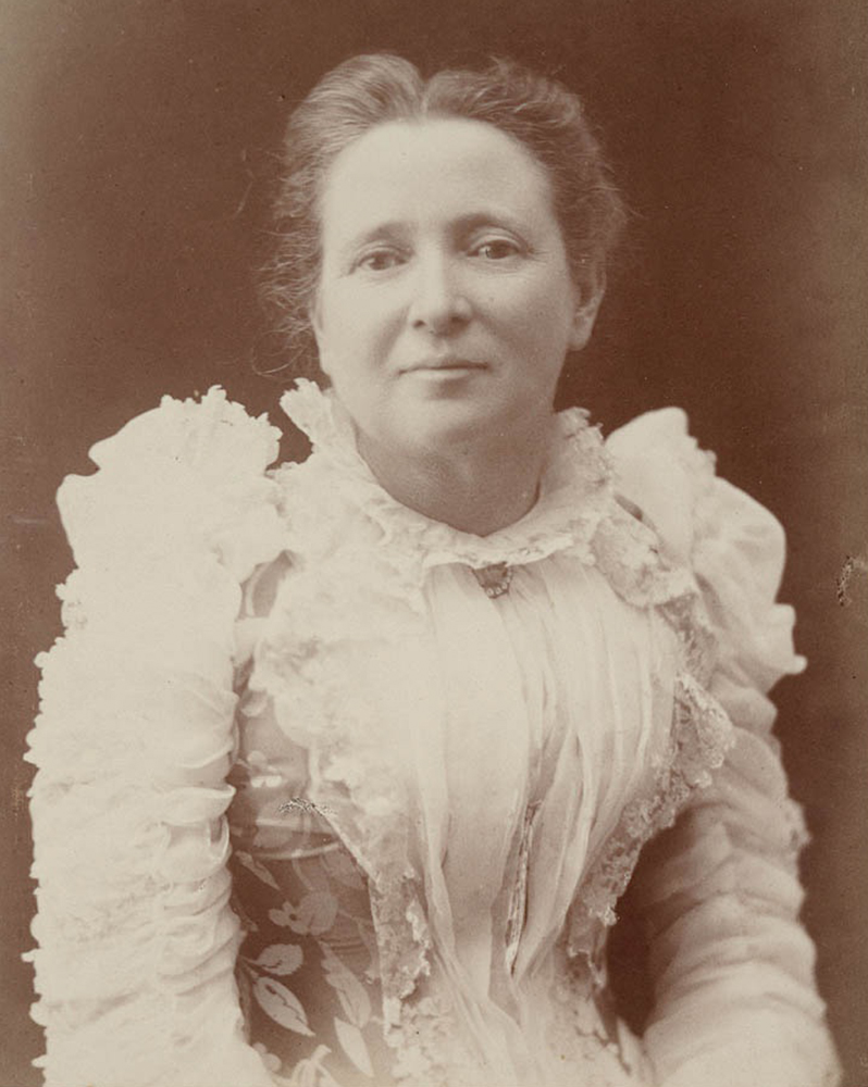 Format: Photograph ('crop version') Notes: Lady Windeyer (1837-1912) was foundation president of the Womanhood Suffrage League of New South Wales. This image is available from the Manuscripts, Oral History and Pictures Search of the State Library of New South Wales under the Item ID: 441796 This tag does not indicate the copyright status of the attached work. A normal copyright tag is still required. See Commons:Licensing for more information. Deutsch | English | +/−